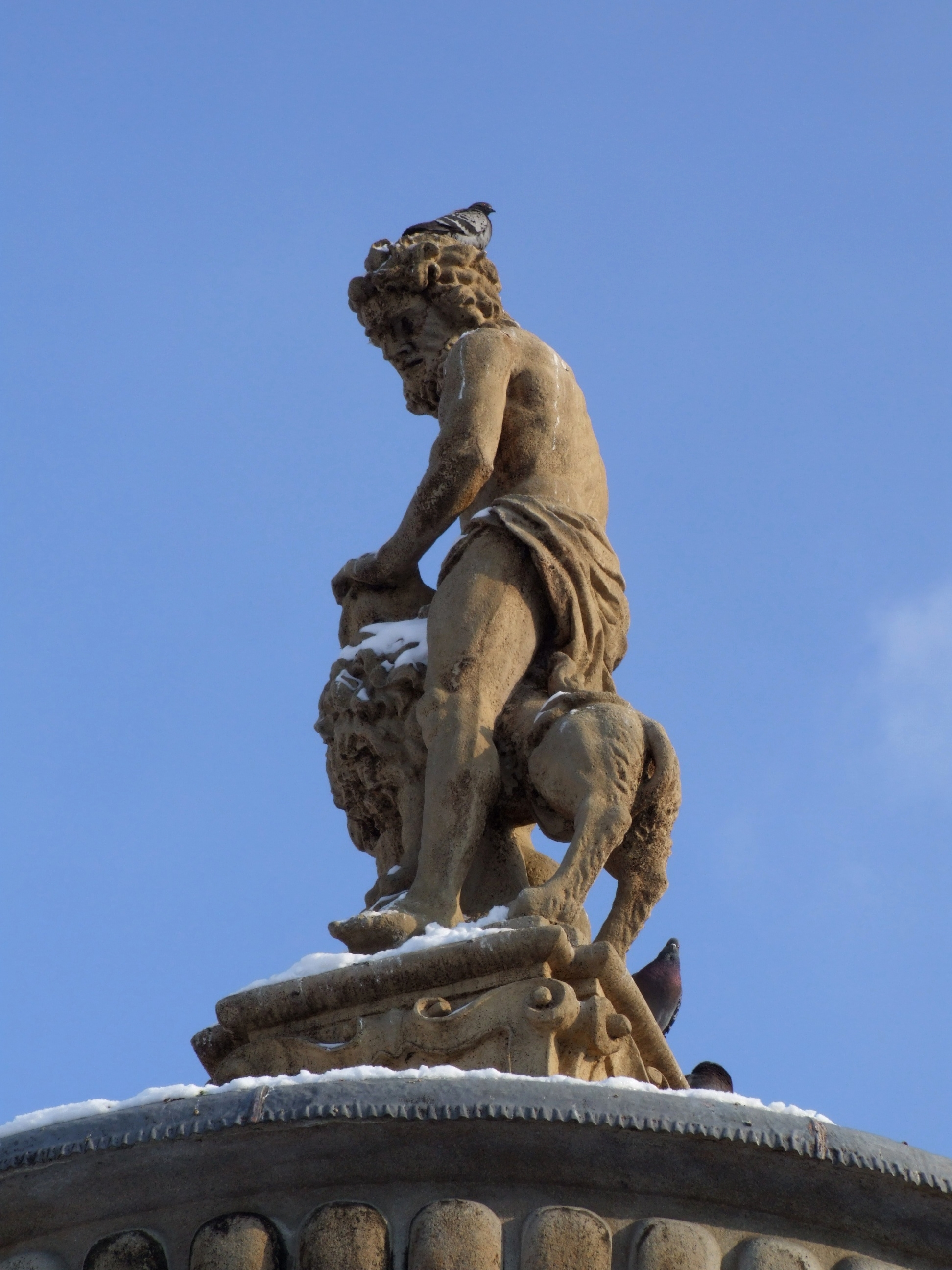 Samson's fountain (Samsonova kašna) in České Budějovice (Budweis) - main statue